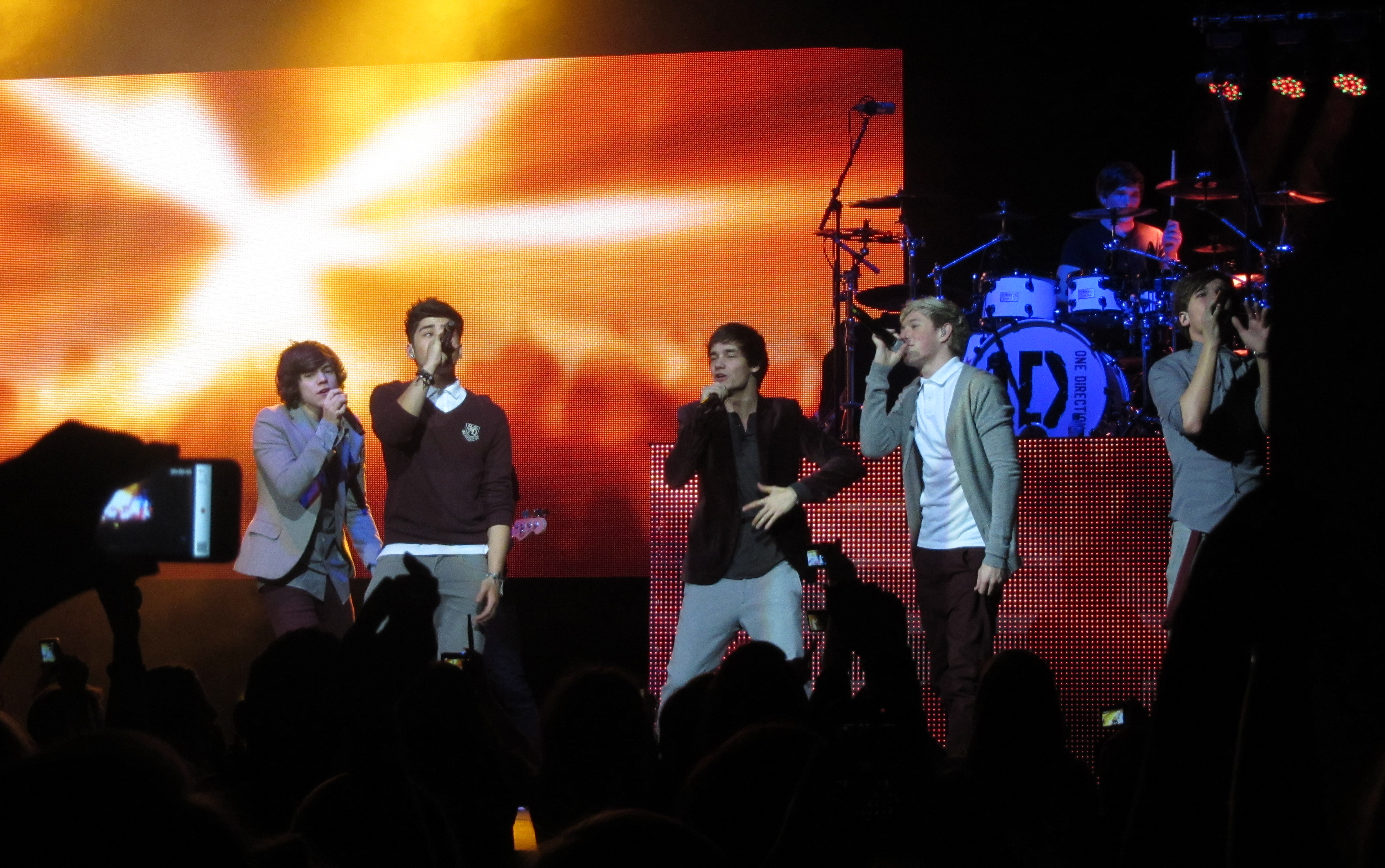 One Direction, Clyde Auditorium, Glasgow, Saturday 14 January 2012